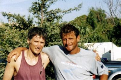 Umberto Pelizzari(right) - an Italian freediver (17 world records)instructor and owner of Apnea Academy School, with his student and friend Tomasz Nitka(left) - Polish freediver, champion and freediving instructor.